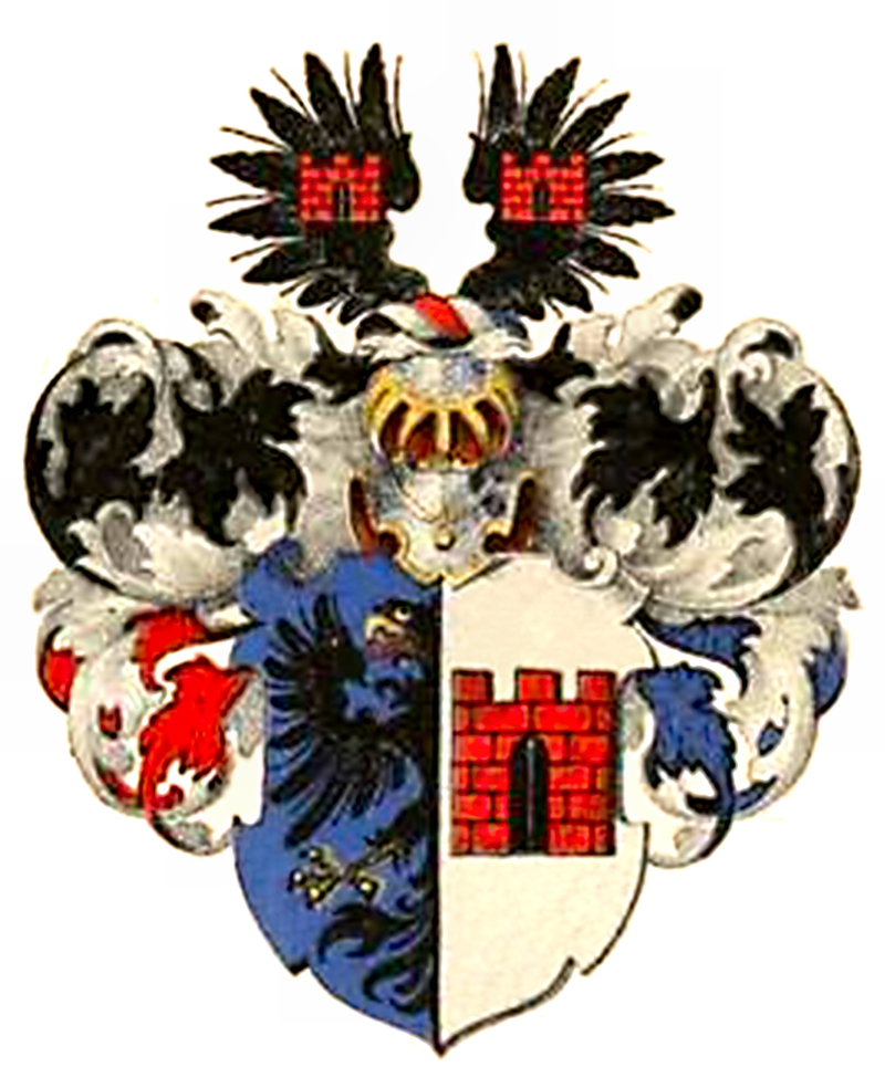 von Berg a. d. H. Kandel, Karmel und Nurmis CoA